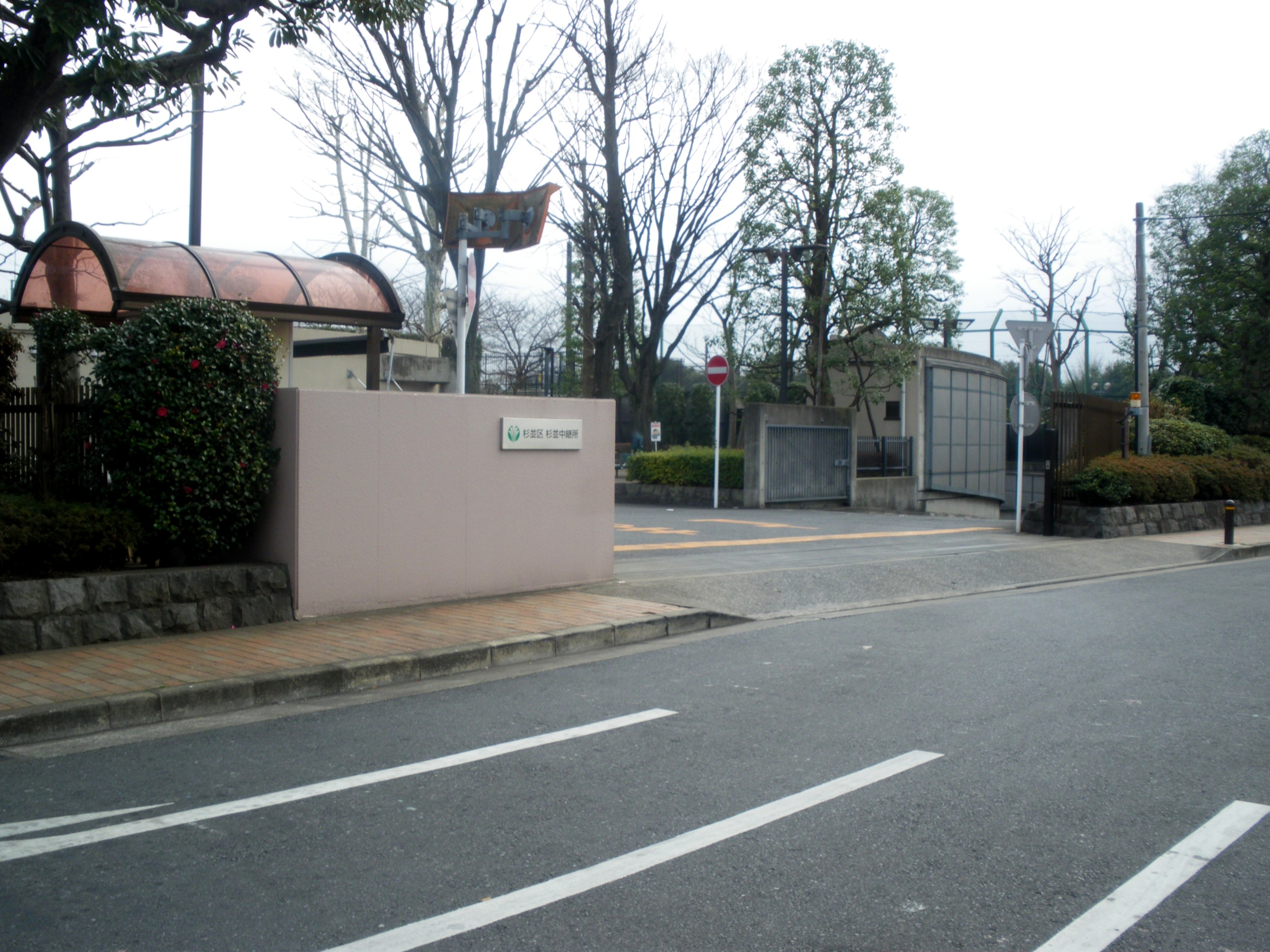 A photo of the entrance of Suginami Waste Transfer Station,Igusa,Suginami-ku,Tokyo,Japan.